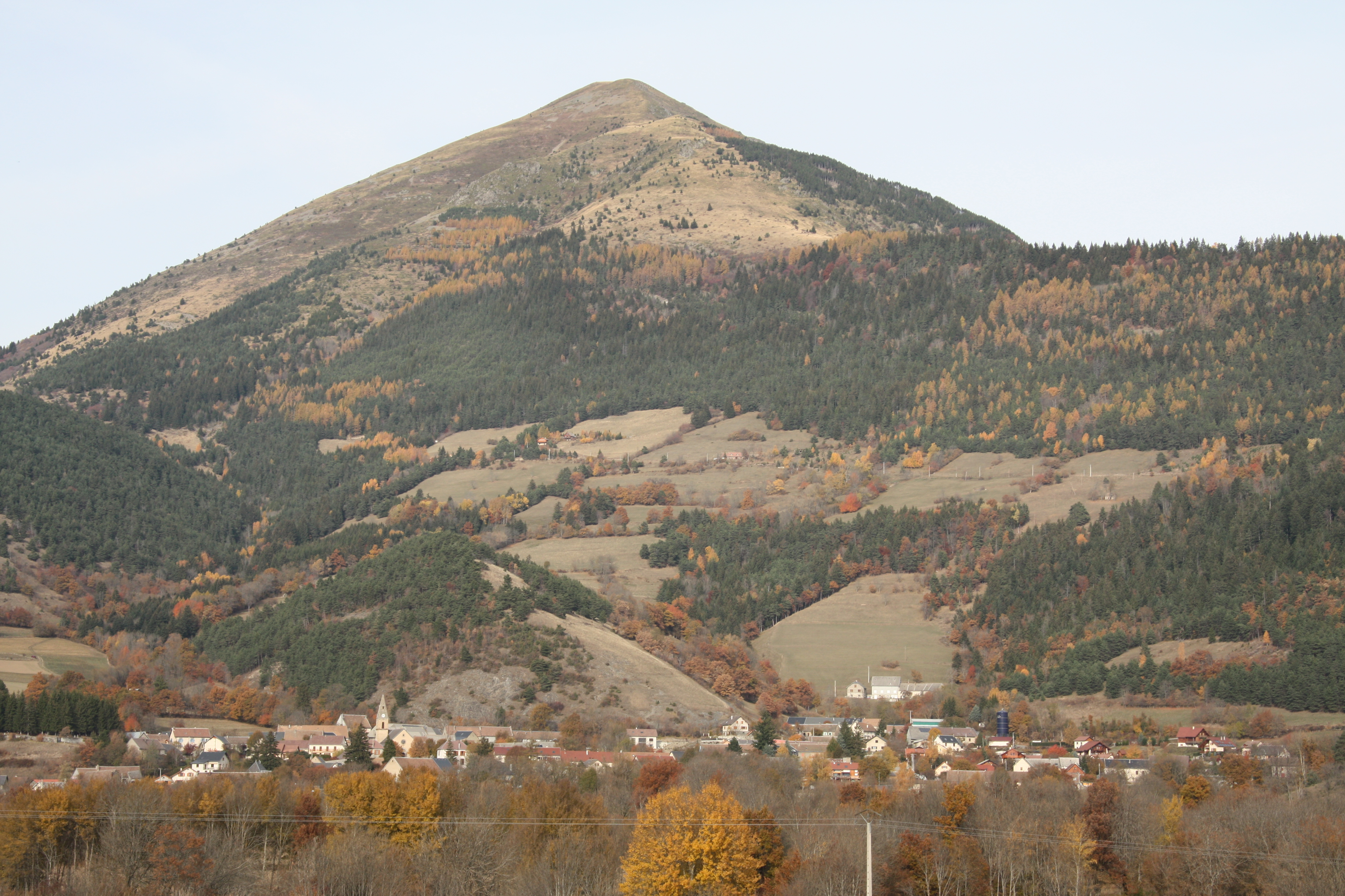 Le Tabor, a montain in Isère, France